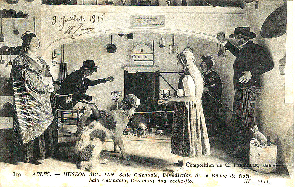 Postcard 1916 Cacho-fio